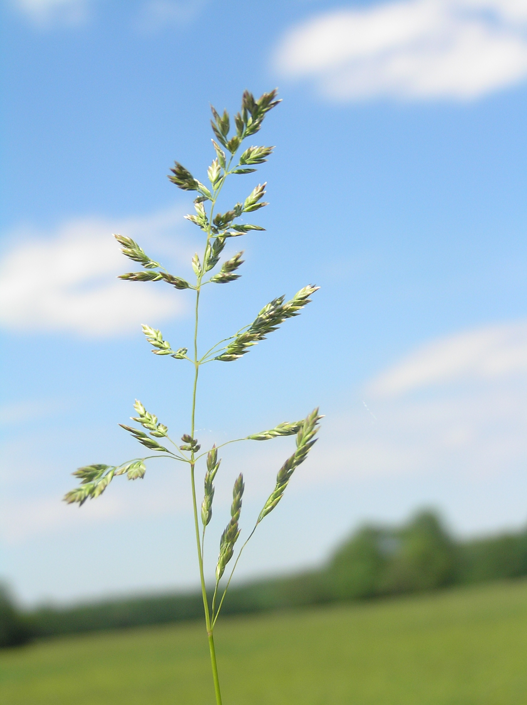 Poa pratensis, Lánské louky near Lanžhot, Southern Moravia, Czech Republic